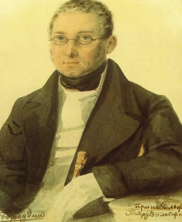 Mikhail Zagoskin